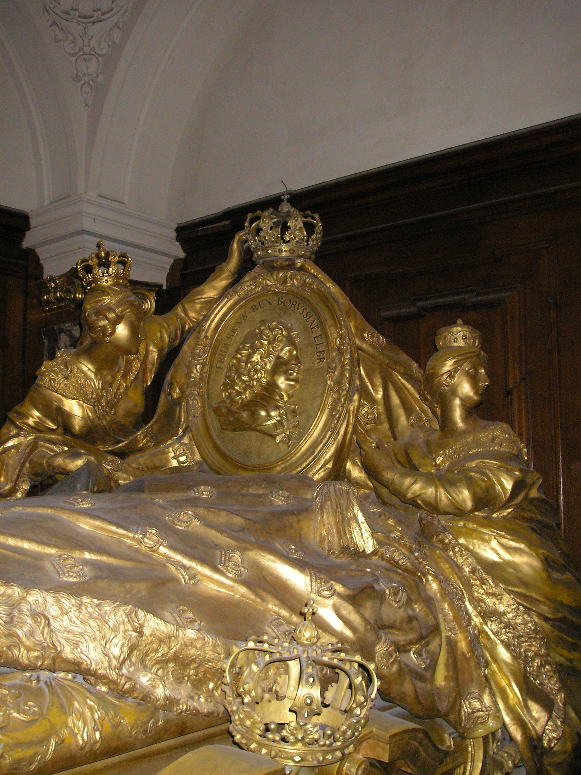 Description: Sarcophagus of King Friedrich I in Prussia. Located in the Berliner Dom. Source: self-made, I release it into the public domain. Gryffindor 14:25, 11 April 2006 (UTC)